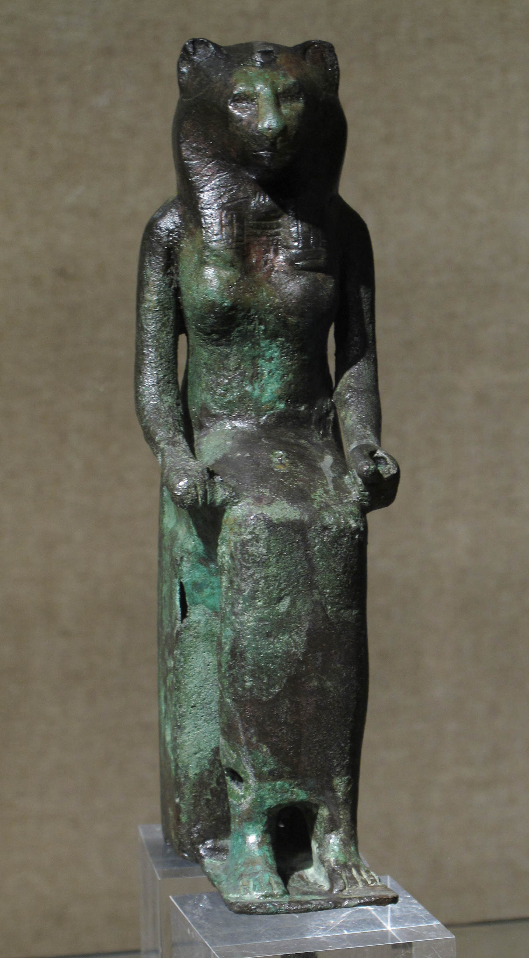 The goddess Bastet . Bronze statuette . Late Period, 665 - 330 BC. Musée Georges-Labit.